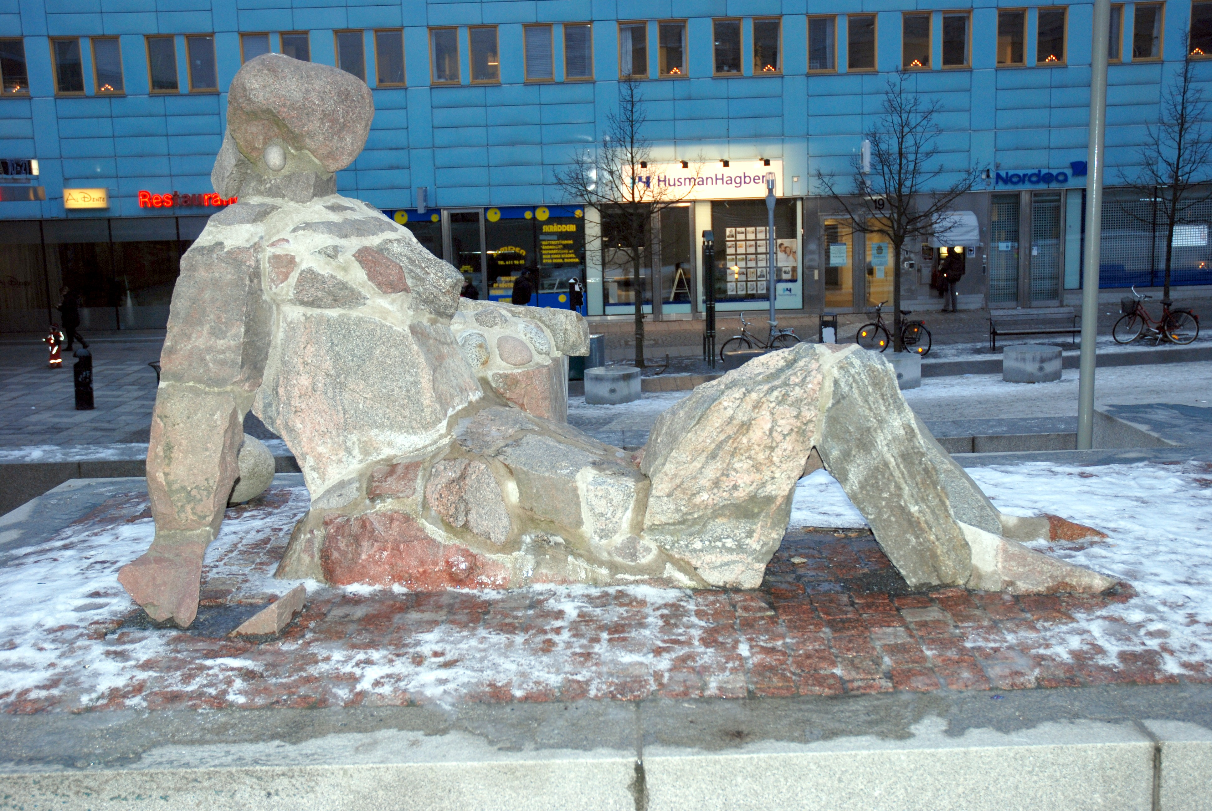 Woman of stone (Stenkvinns), granite blocks and concrete, 1977, by Olle Nyman, Kista Torg, Stockholm, Sweden